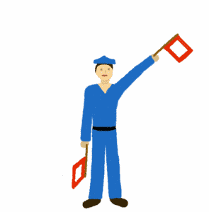 Letter E of the nautical semaphore flag signalling system Source: Martin Hawlisch (User:LosHawlos) My own drawing done in gimp First uploaded to de: in jun-2004